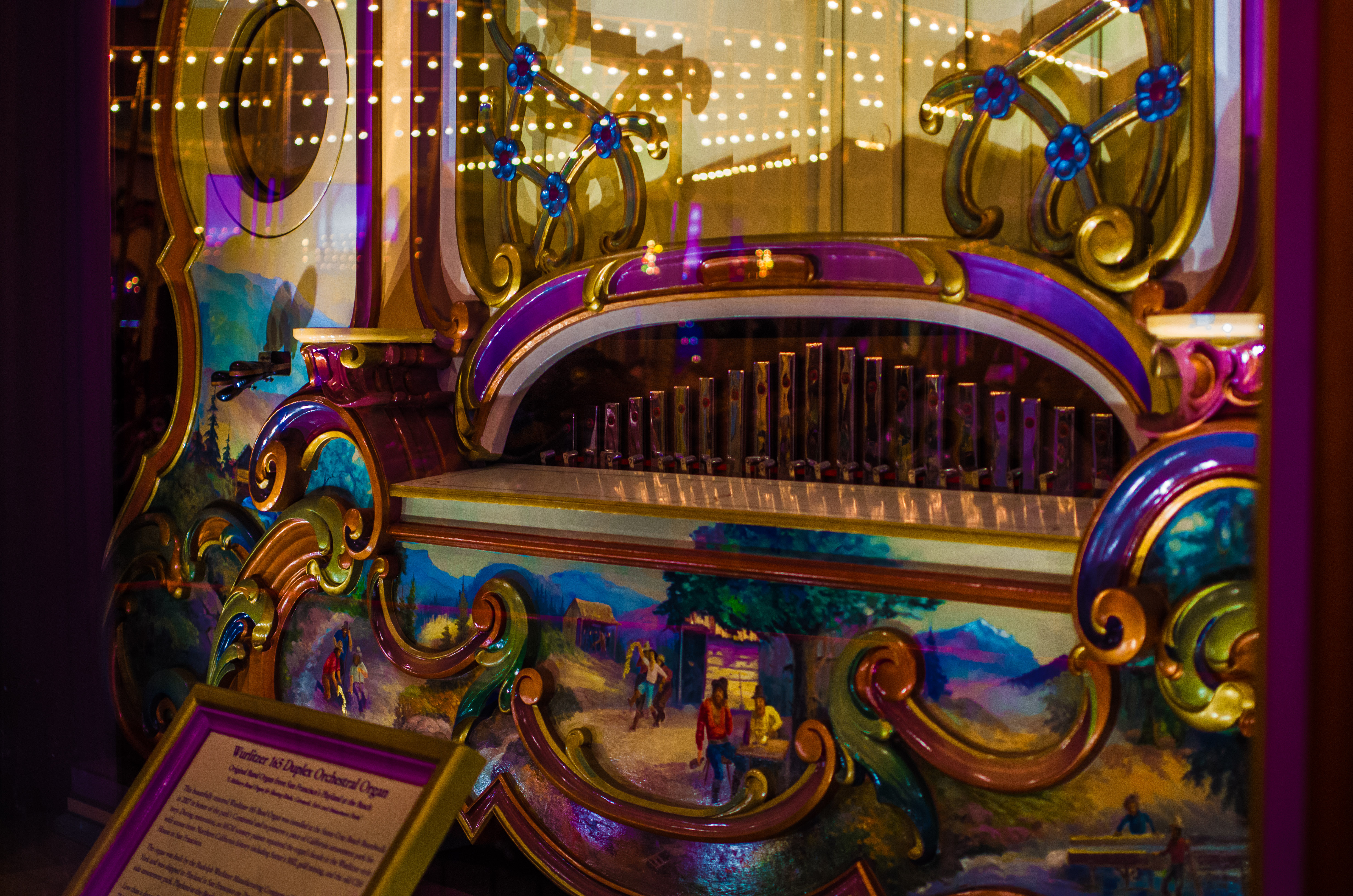 Wurlitzer 165 Dupler Orchestral Organ (SN 3124) - Looff Carousel - Santa Cruz Beach Boardwalk, 2015-04-04 18.37.26 (photo by David Prasad) Flickr Tags: California Central California Looff Carousel National Historic Landmark Santa Cruz Santa Cruz Beach Santa Cruz Beach Boardwalk Wurlitzer 163 Duplex Orchestral Organ selected photo wurlitzer. References Dan Robinson. "History of the Wurlitzer 165 Carousel Band Organs". Mechanical Music (May/June 2008, revised September 2008). Musical Box Society International (MBSI). "4. Organ #3124 (Santa Cruz): Organ #3124 is one of several 165s that started its playing life in California, where, after many years in private hands, it has since returned to public use. It was shipped Dec. 30, 1918, to the amusement park Playland-at-the-Beach in San Francisco, where it played for a four-row Looff menagerie carousel. ..."